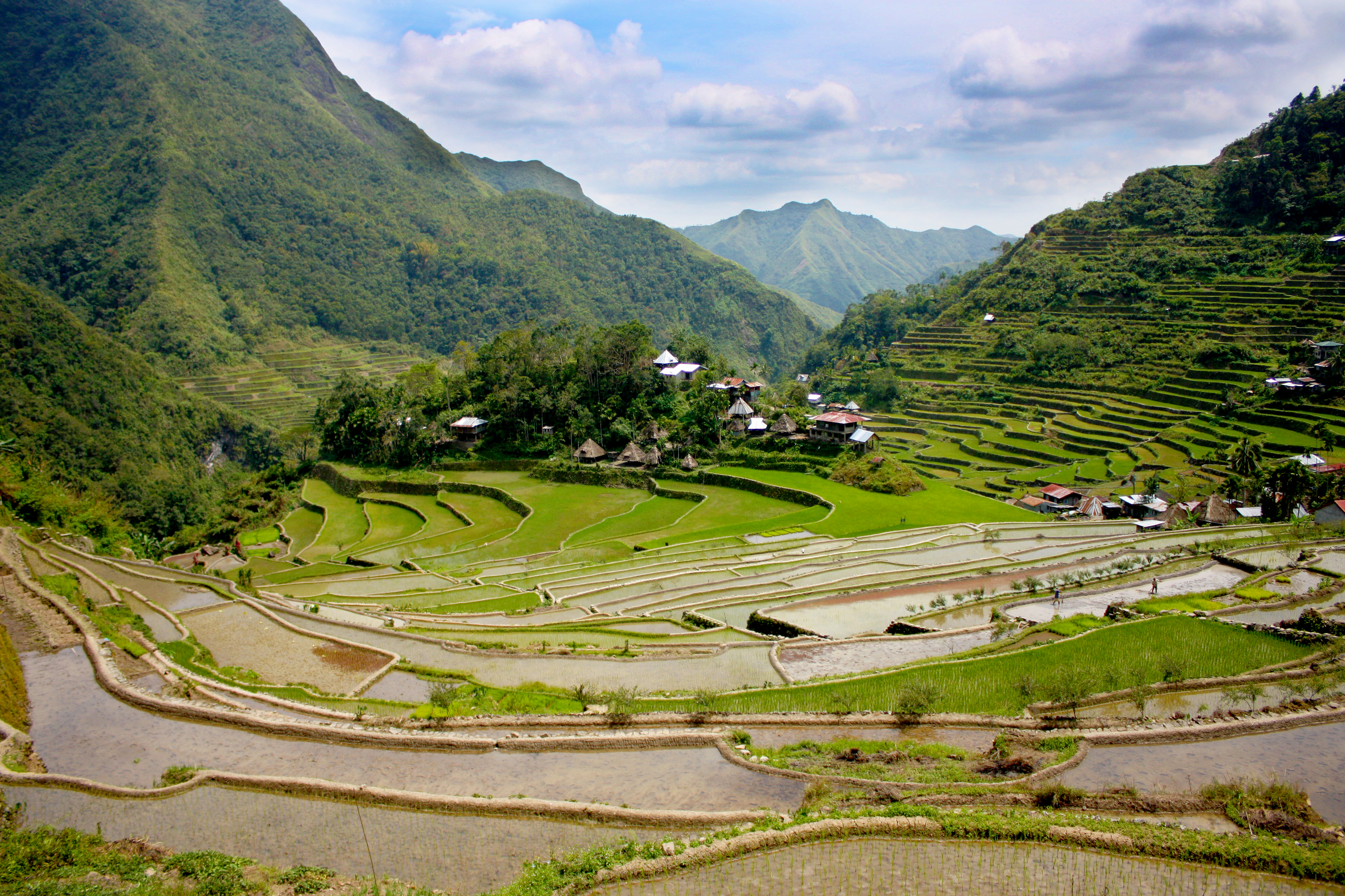 Built by the power of human hands, the rice terraces of Ifugao is truly a man made wonder. Batad rice terraces is famous because of its amphitheater like setting.